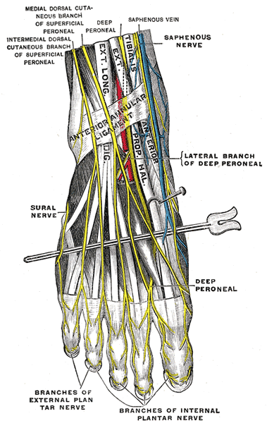 Nerves of the dorsum of the foot. (Testut.)